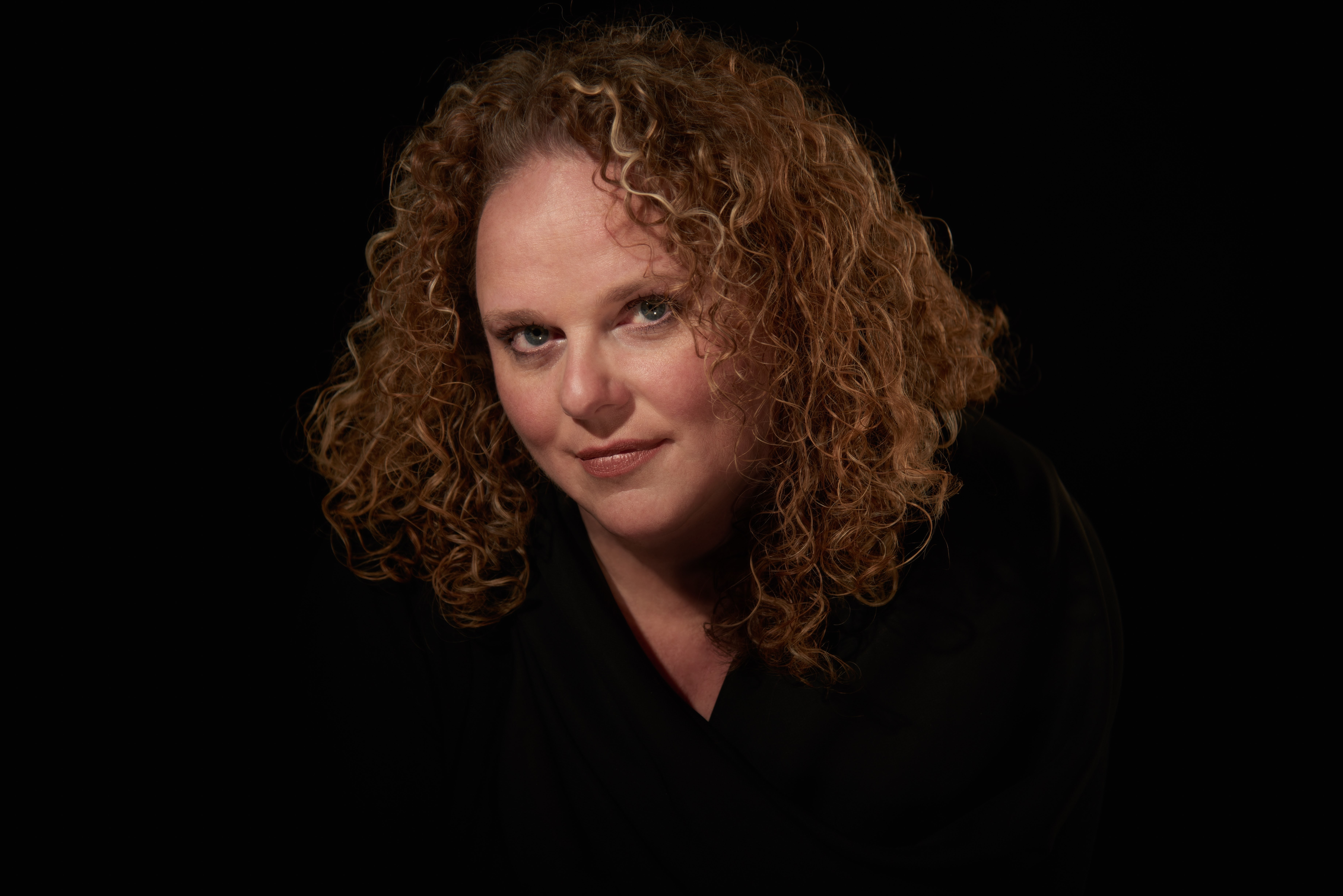 Photo by Marie Byers